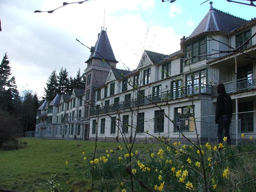 Glen O' Dee Hospital. Abandoned former sanatorium/hotel/army billet/nursing home, etc. at the terminus of Corsee Road in Banchory.